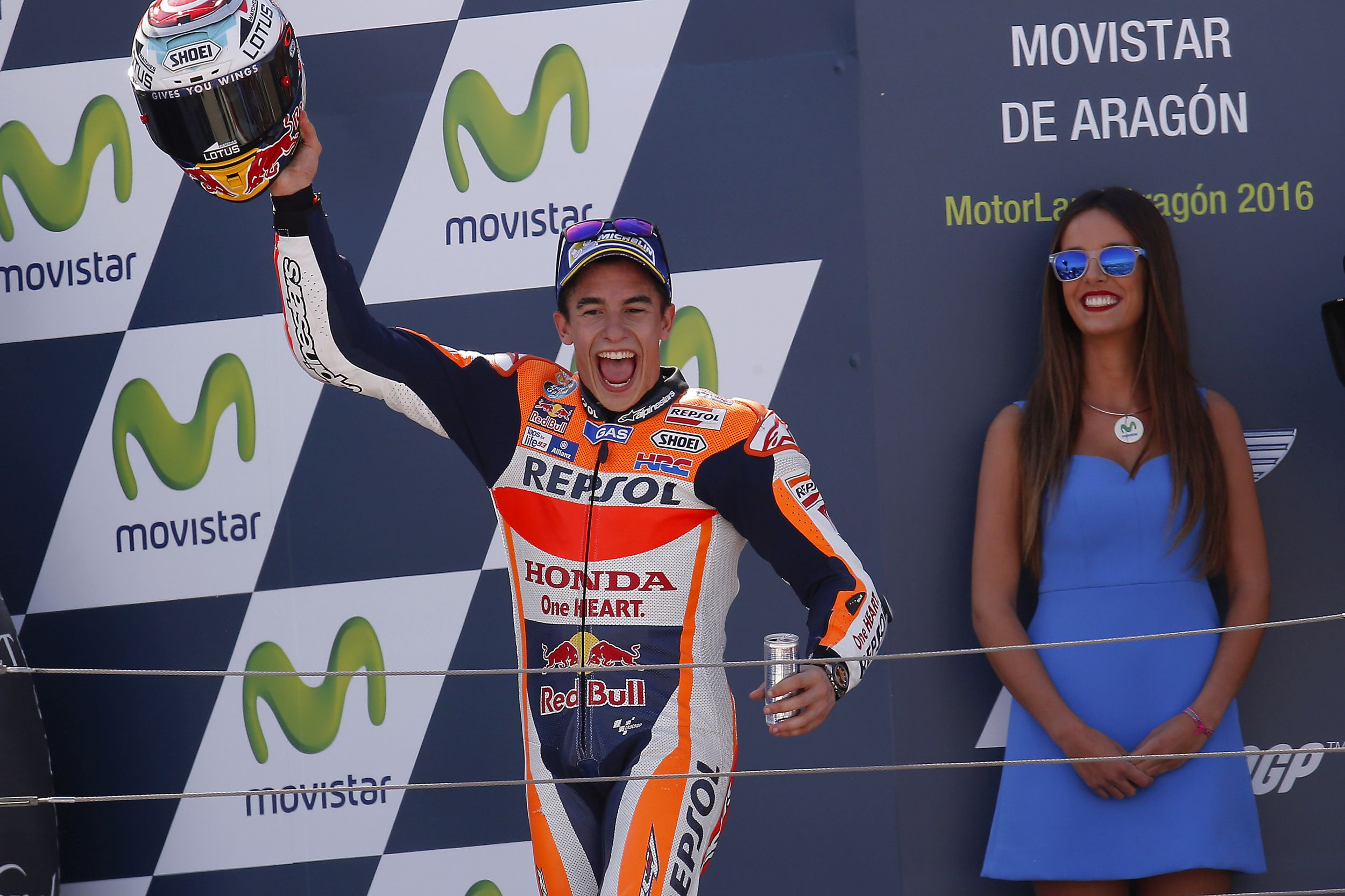 Marc Márquez, celebrating on the podium after winning the 2016 Aragón Grand Prix.